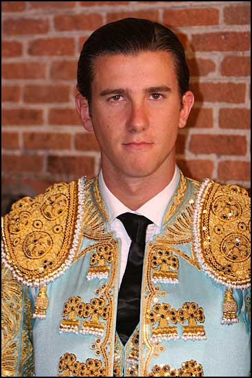 User:Tngah